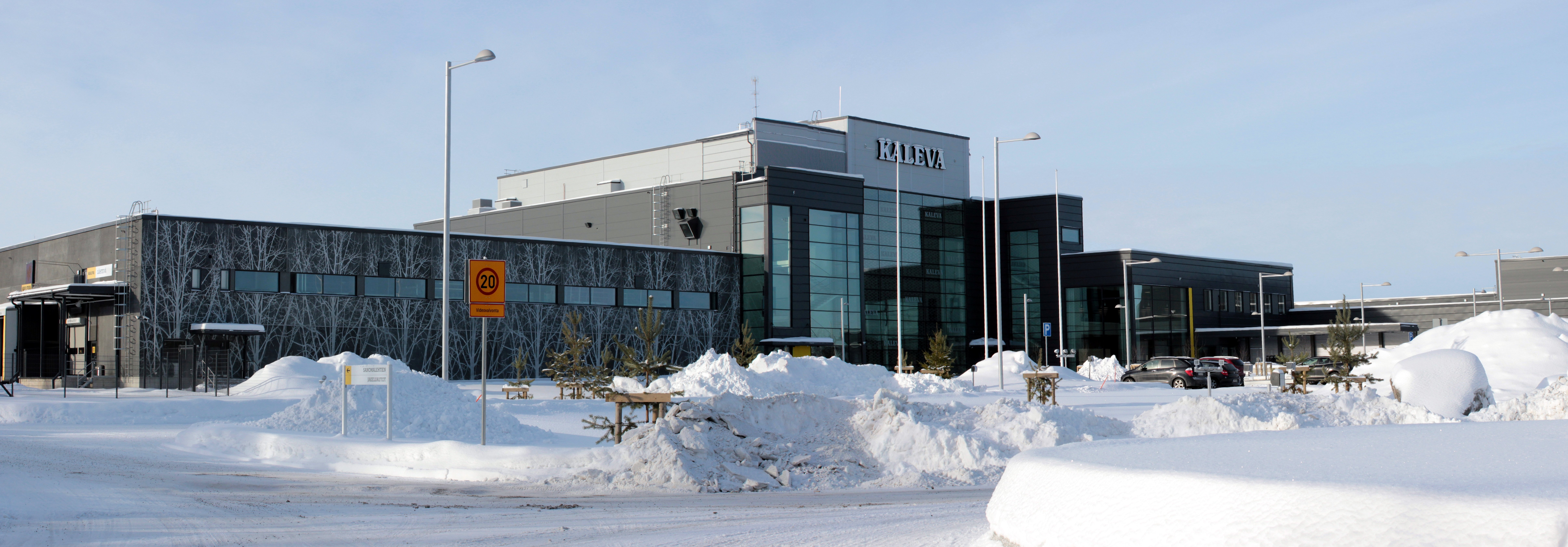 Panoramic view of the Kaleva Printing House in Oulu.